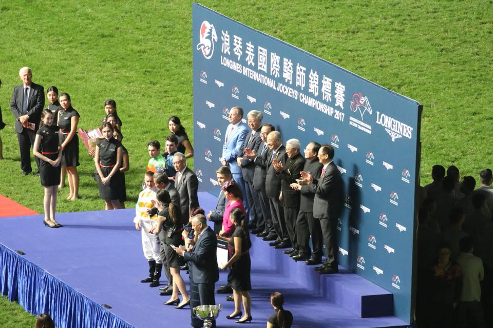 International Jockey Championship 2017- Winner Z Purton